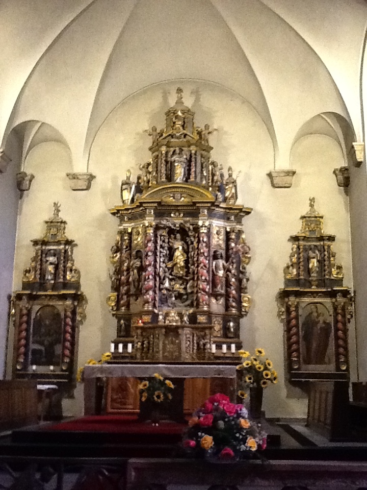 Église de Sainte-Marie-Madeleine (autels)